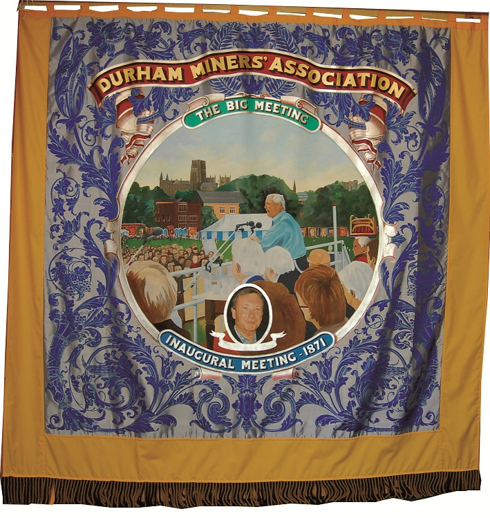 A photo of one of the Durham Miners' Associations' banners which features Michael Watt in recognition of his support of the Durham Miners' Gala.